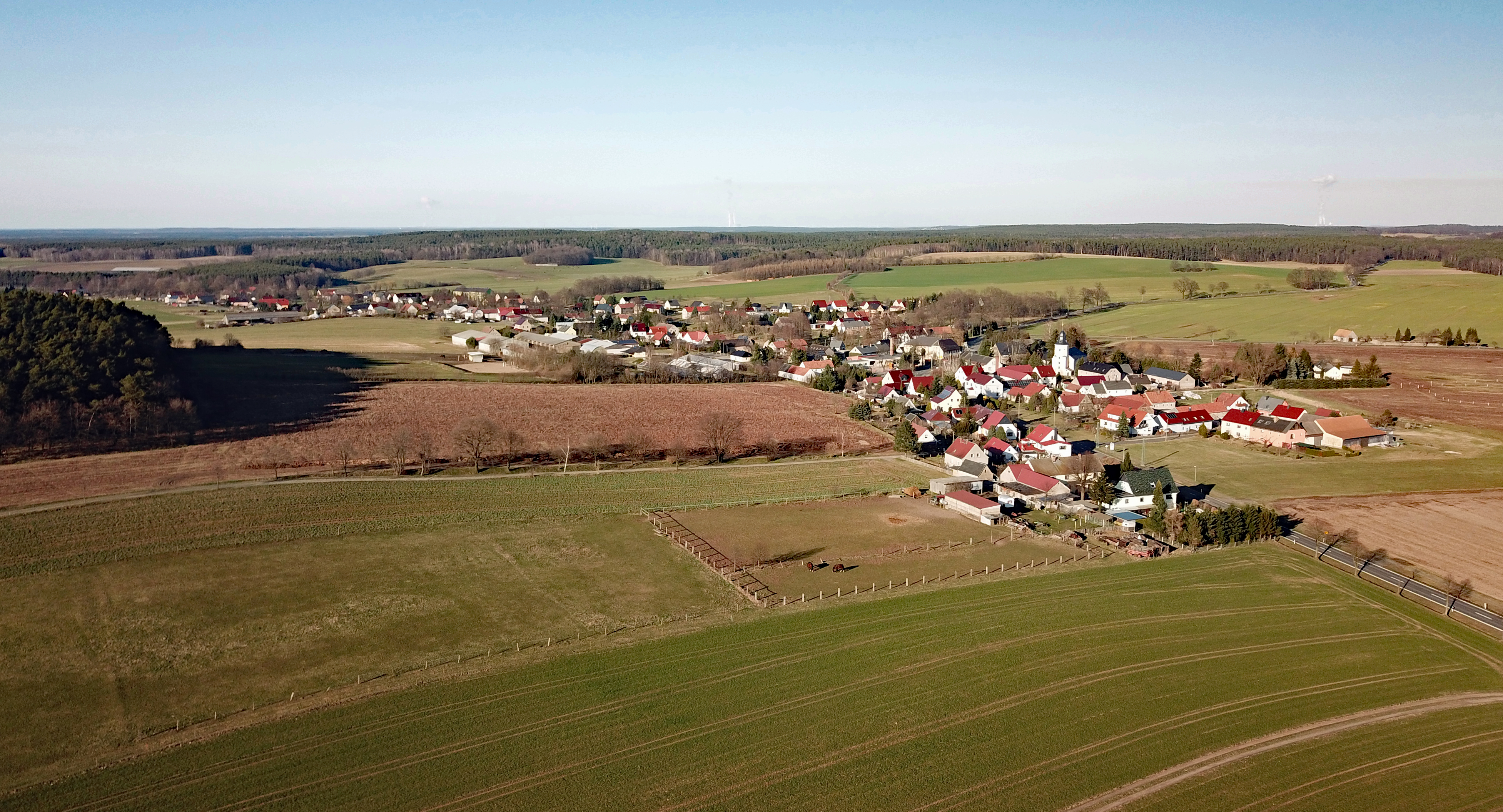 Neukirch (Saxony, Germany)